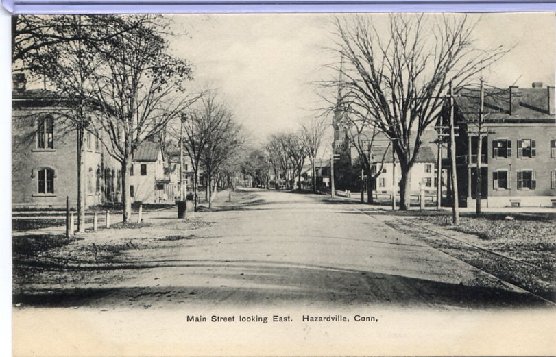 Postcard: Main Street, looking east, Hazardville, Connecticut, a section of the town of Enfield, Connecticut, about 1906 Original caption: “"HAZARDVILLE CT Connecticut Main Street Scene ca.1906" Web page does not say whether or not the postcard has a postmark or if it was used. "Standard postcard size (3.5” x 5.25”)”